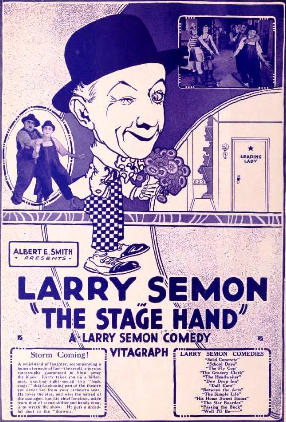 Advertisement for the American short comedy film The Stage Hand (1920) with Larry Semon and Frank Alexander, from the insert after page 10 of the August 7, 1920 Exhibitors Herald.